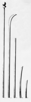 Training wooden weapon in Katori Shinto Ryu